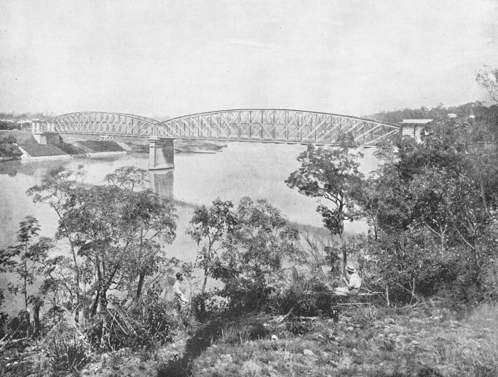 Photographer: Unidentified Location: Brisbane, Queensland, Australia View this page at the State Library of Queensland Information about State Library of Queensland’s collection: .au/